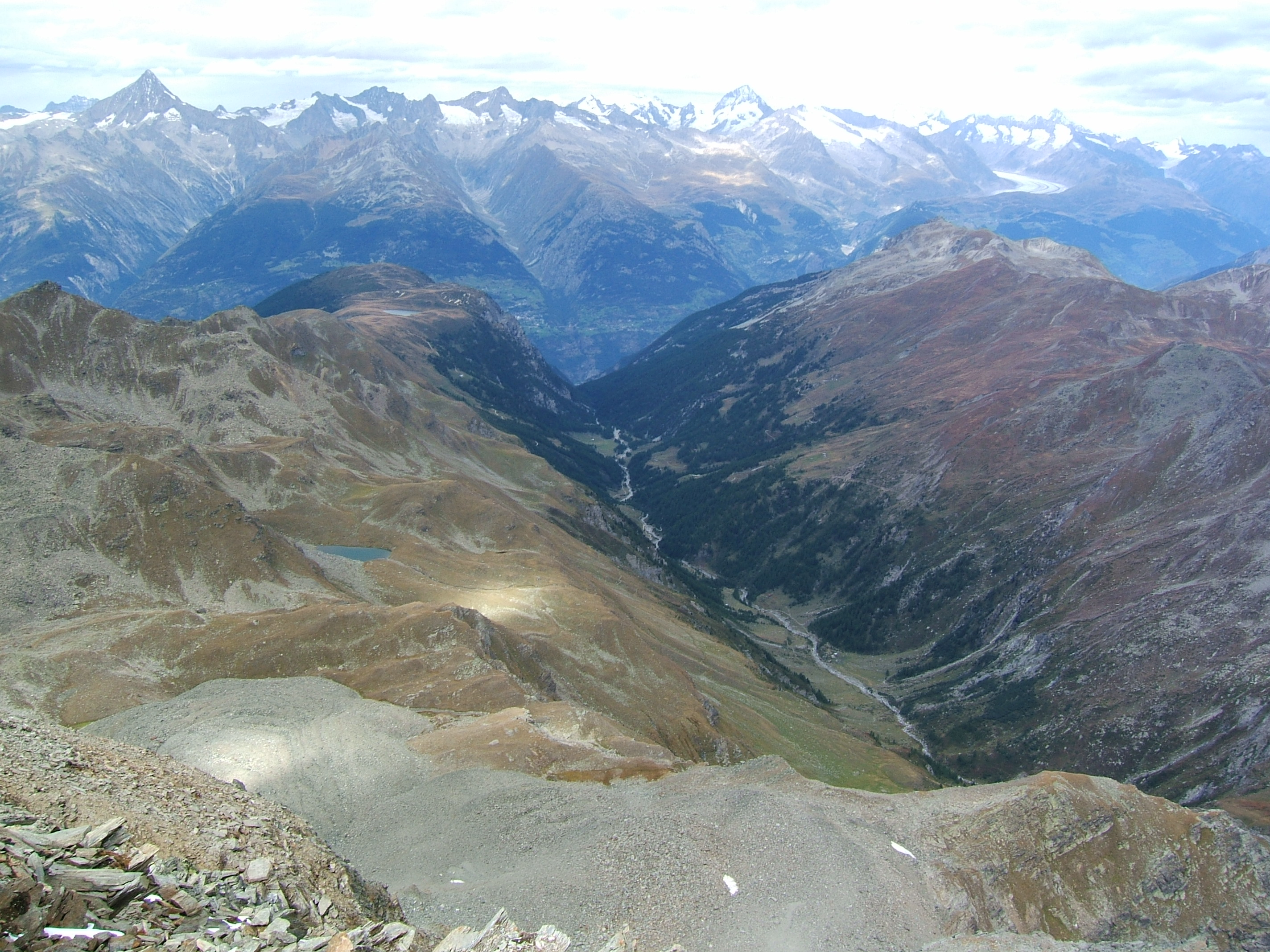 Nanztal from south, from Mattwaldhorn